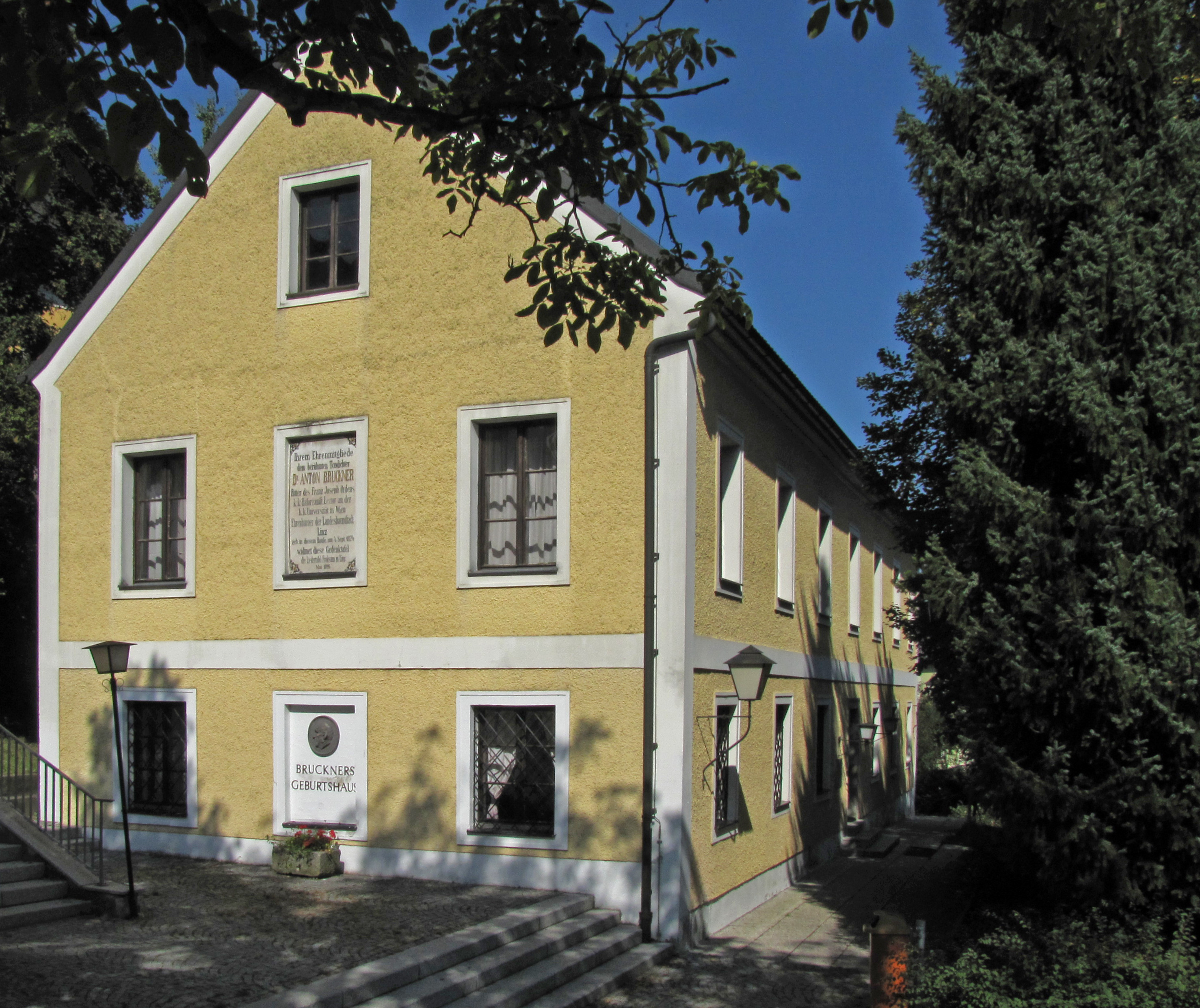 Anton Bruckners house of birth